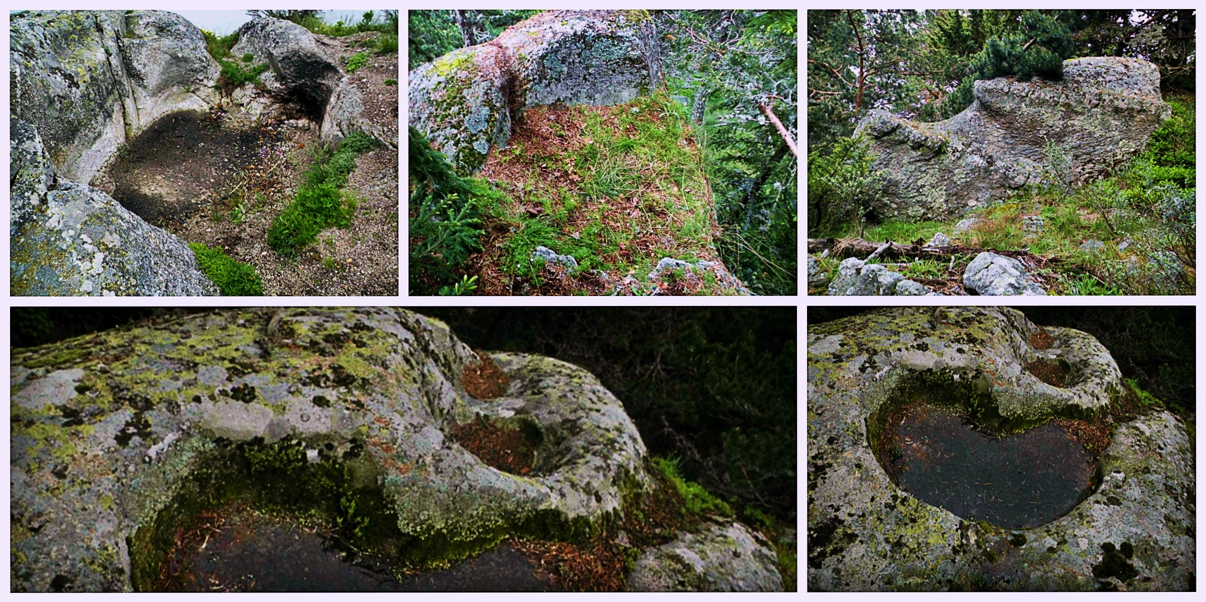 Kara_kaya_VishteritzaRiver_West_Rhodopes_BG